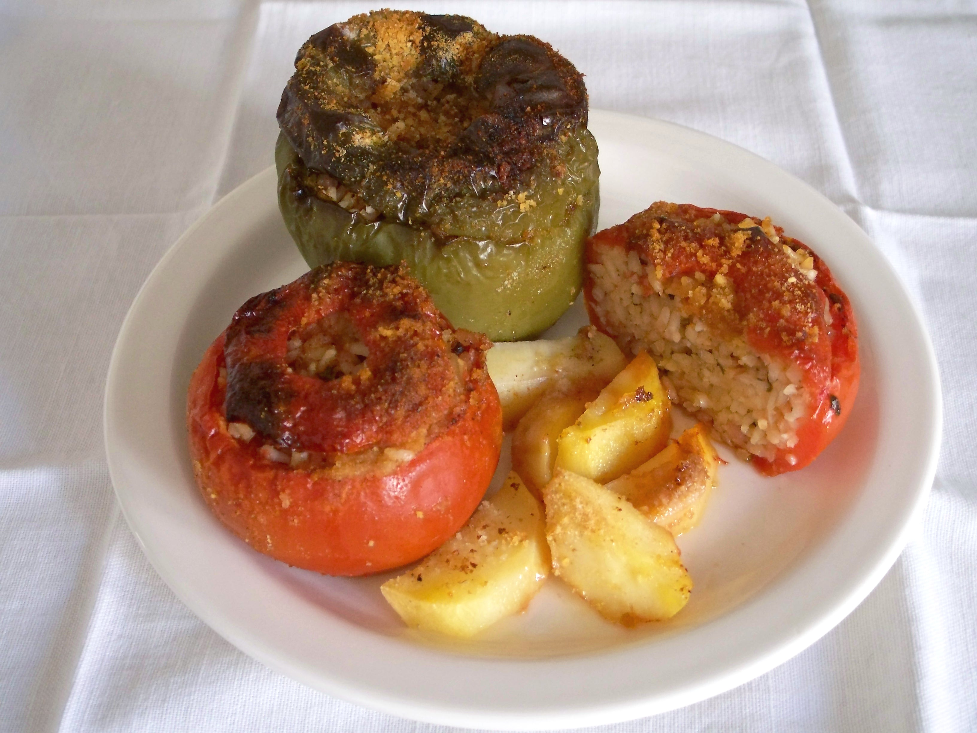 A plate of the popular (summer) greek food Gemista or Yemista (Γεμιστά), tomatoes, peppers (and sometimes eggplant and zucchini) stuffed with rice.